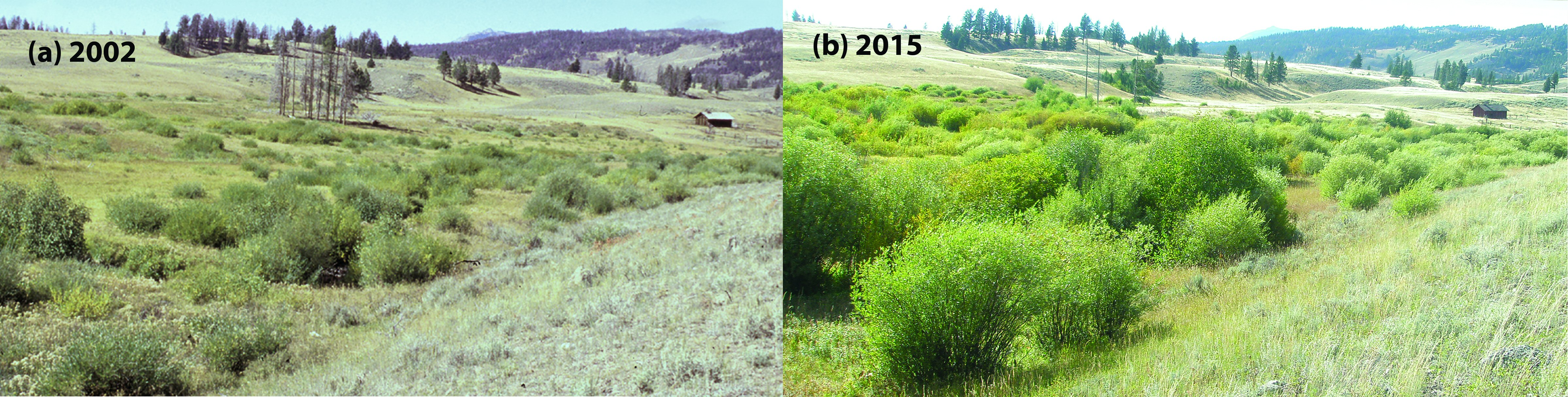 Between 2002 and 2015, willows have become more abundant and taller along Blacktail Deer Creek in Yellowstone’s northern range. (Photo courtesy of Robert Beschta)